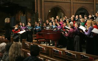 Licensed photograph of New Amsterdam Singers in concert.